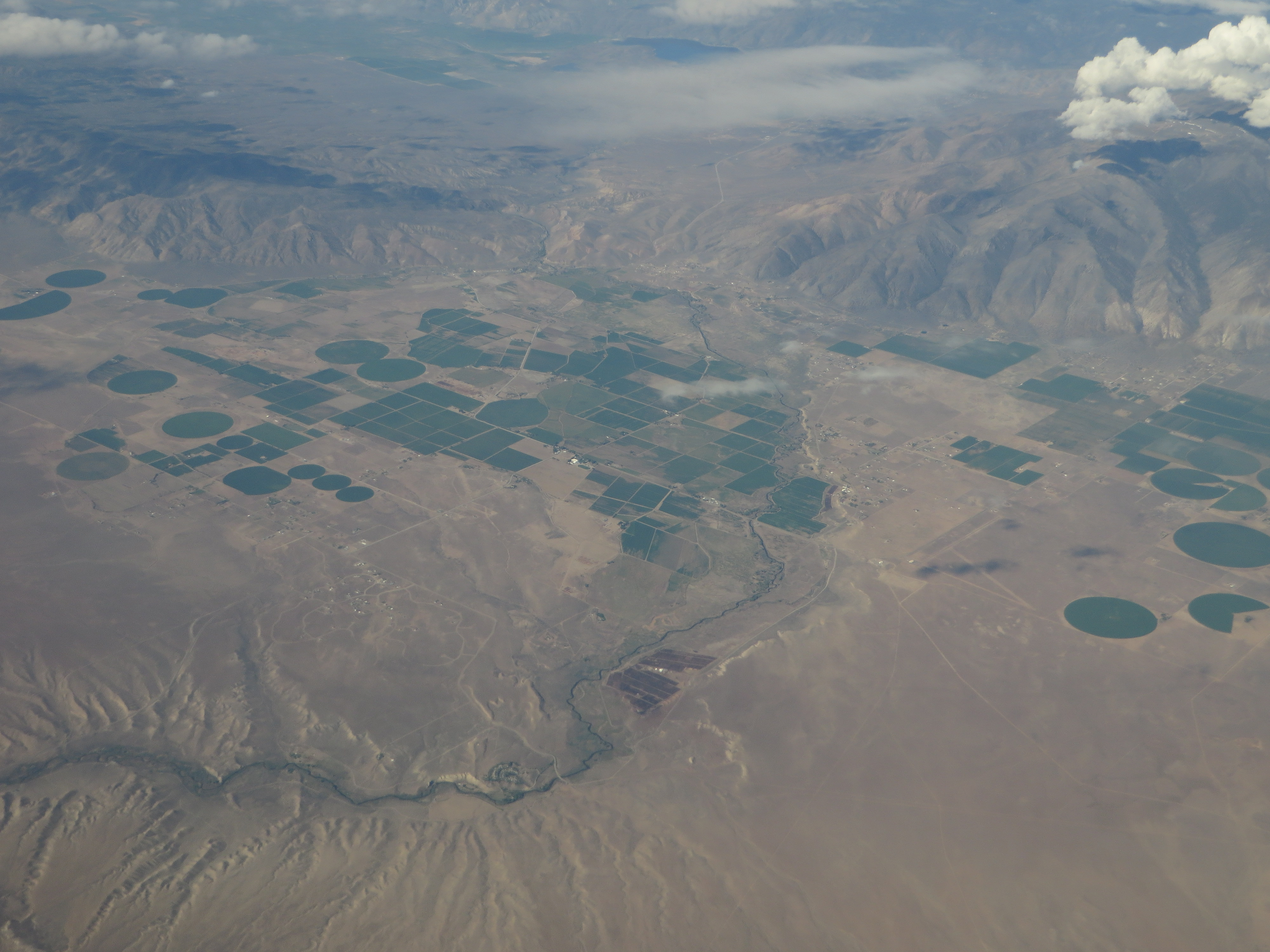 Smith Valley is a census-designated place (CDP) in Lyon County, Nevada, United States. The population was 1,603 at the 2010 census.